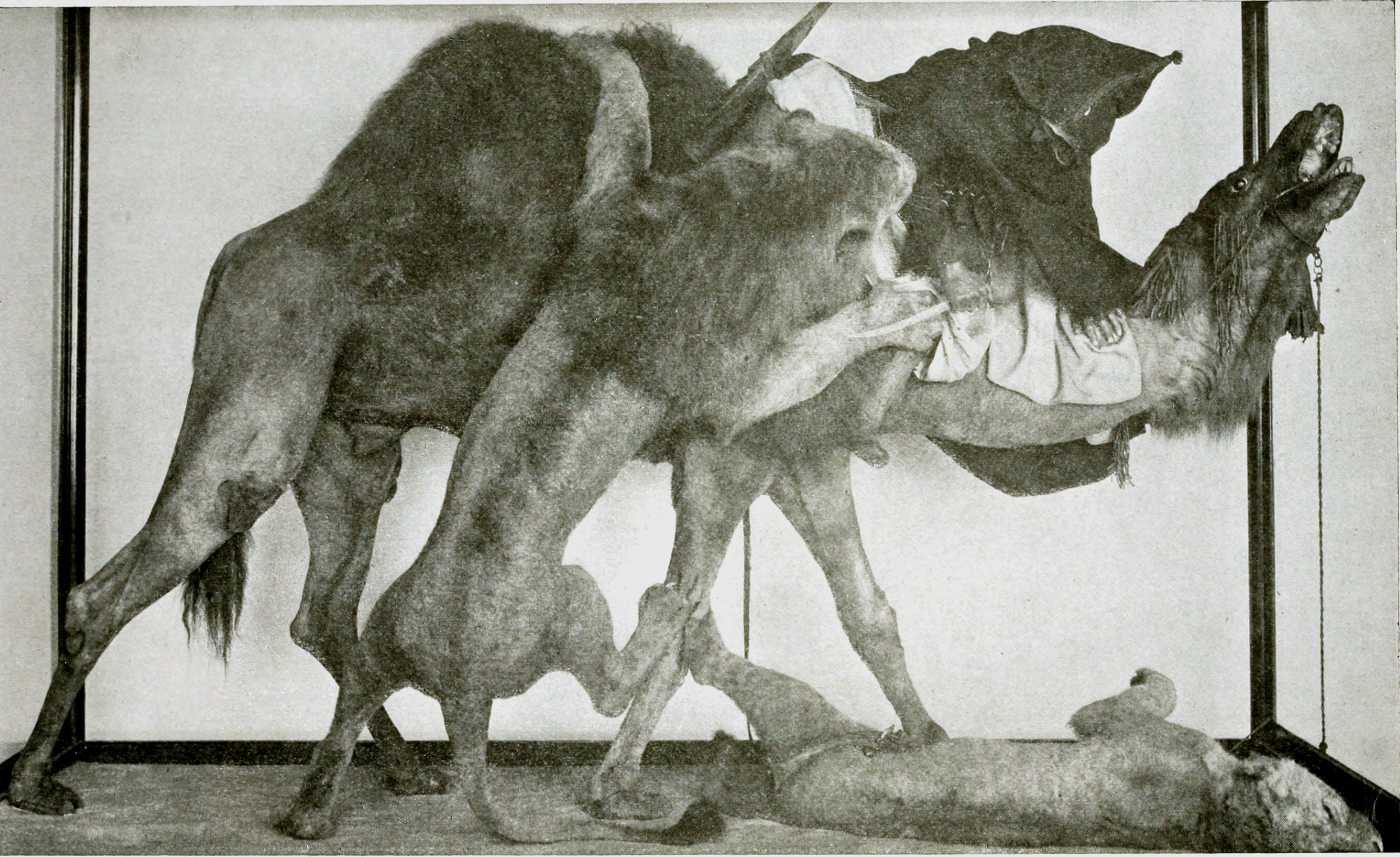 Lion Attacking a Dromedary, or Arab Courier Attacked by Lions Title: The American Museum journal Year: c1900-(1918) (c190s) Authors: American Museum of Natural History Subjects: Natural history Publisher: New York : American Museum of Natural History Text Appearing Before Image: ' Text Appearing After Image: DC S Ph is